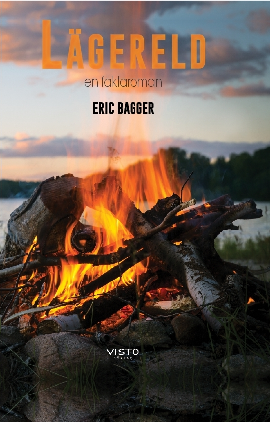 Cover for "Lägereld - en faktaroman" published in 2018.